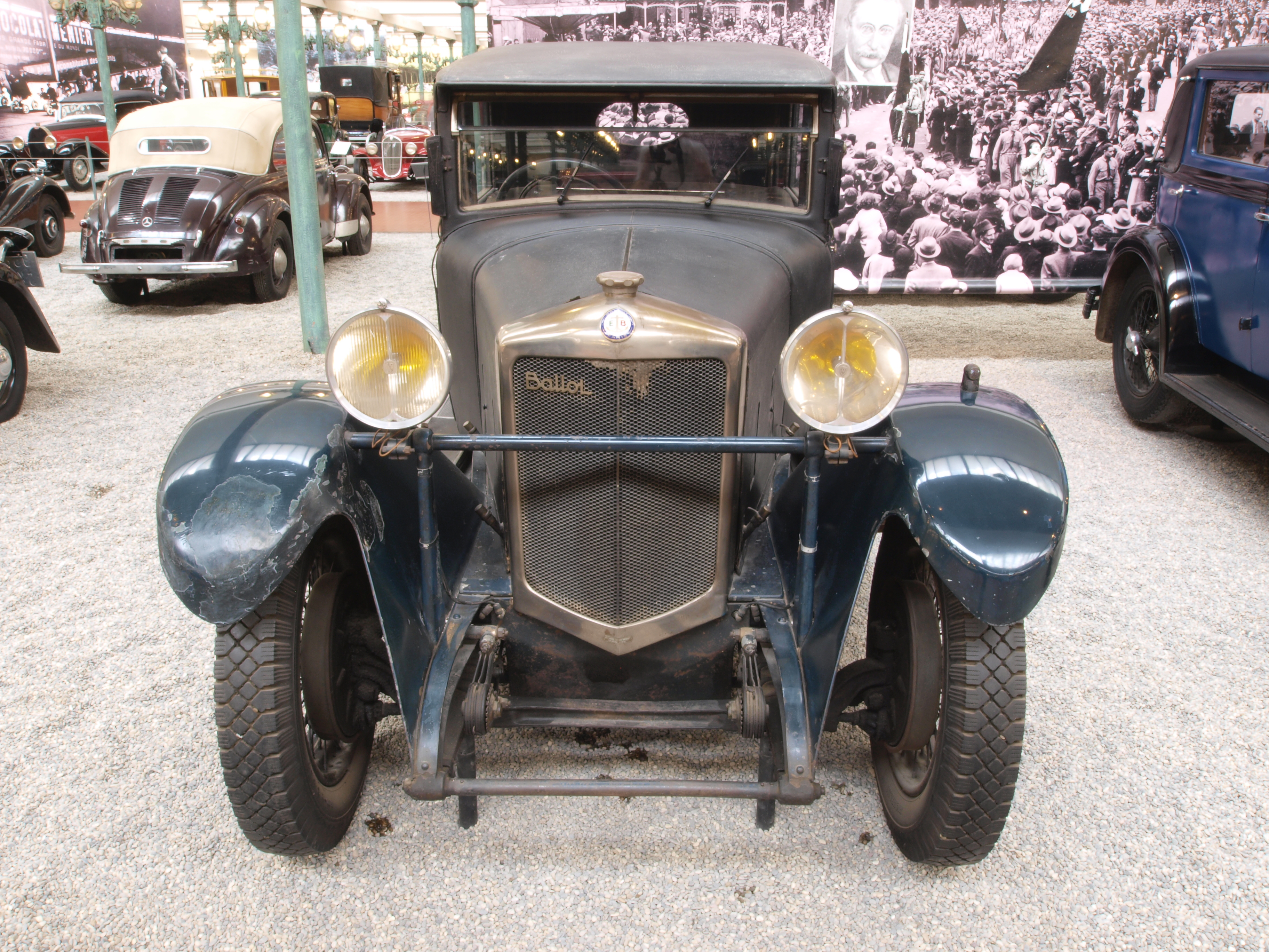 Photographed at the Cité de l’Automobile, France. OLYMPUS DIGITAL CAMERA